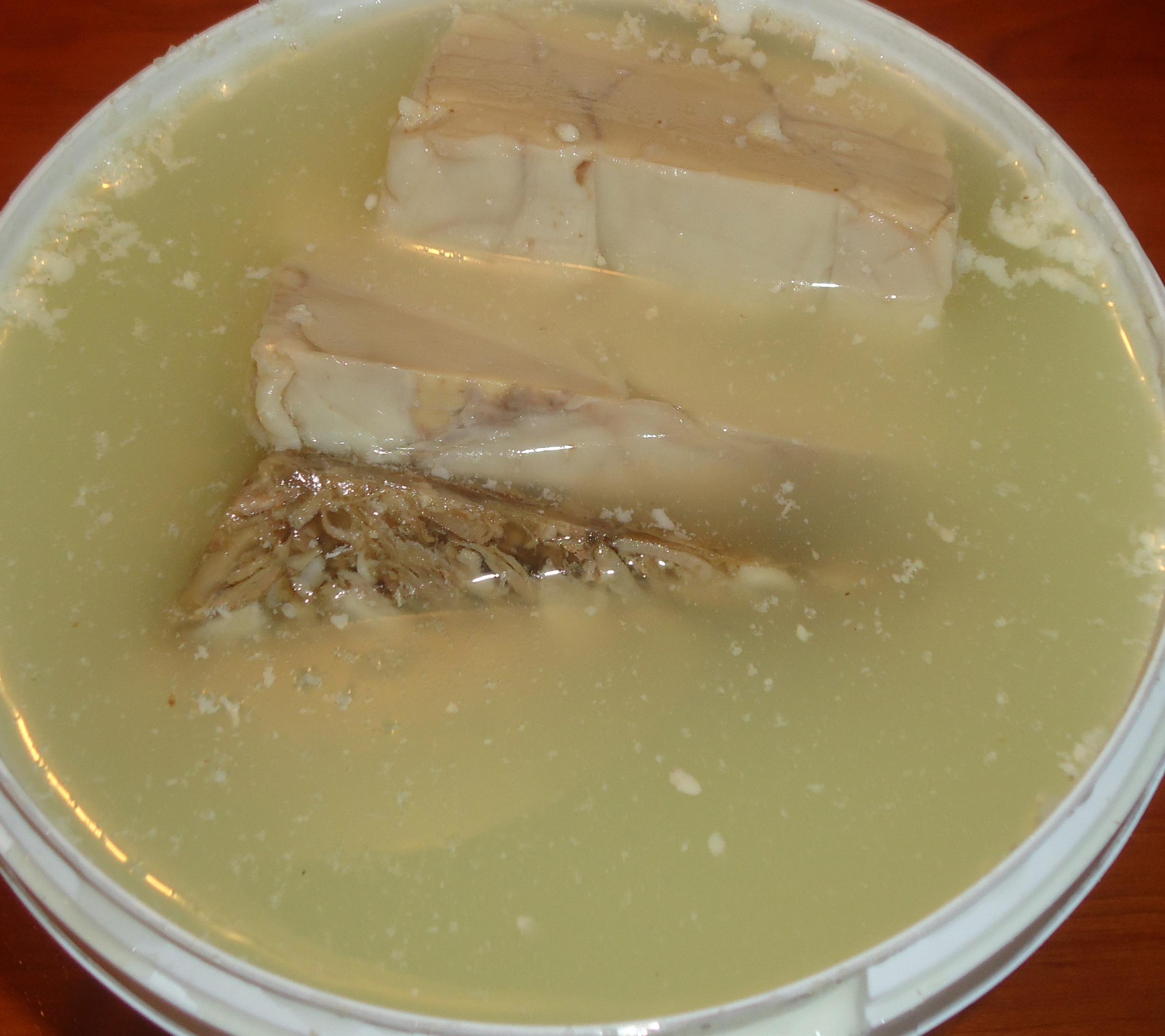 Traditional Icelandic food, preserved in soured whey.